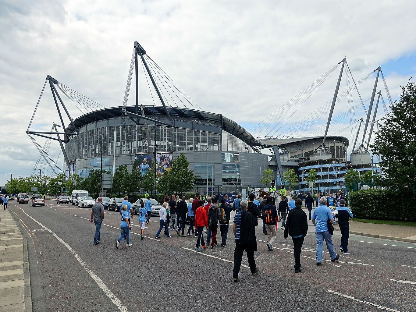 Credits: @JRB - bluemoon